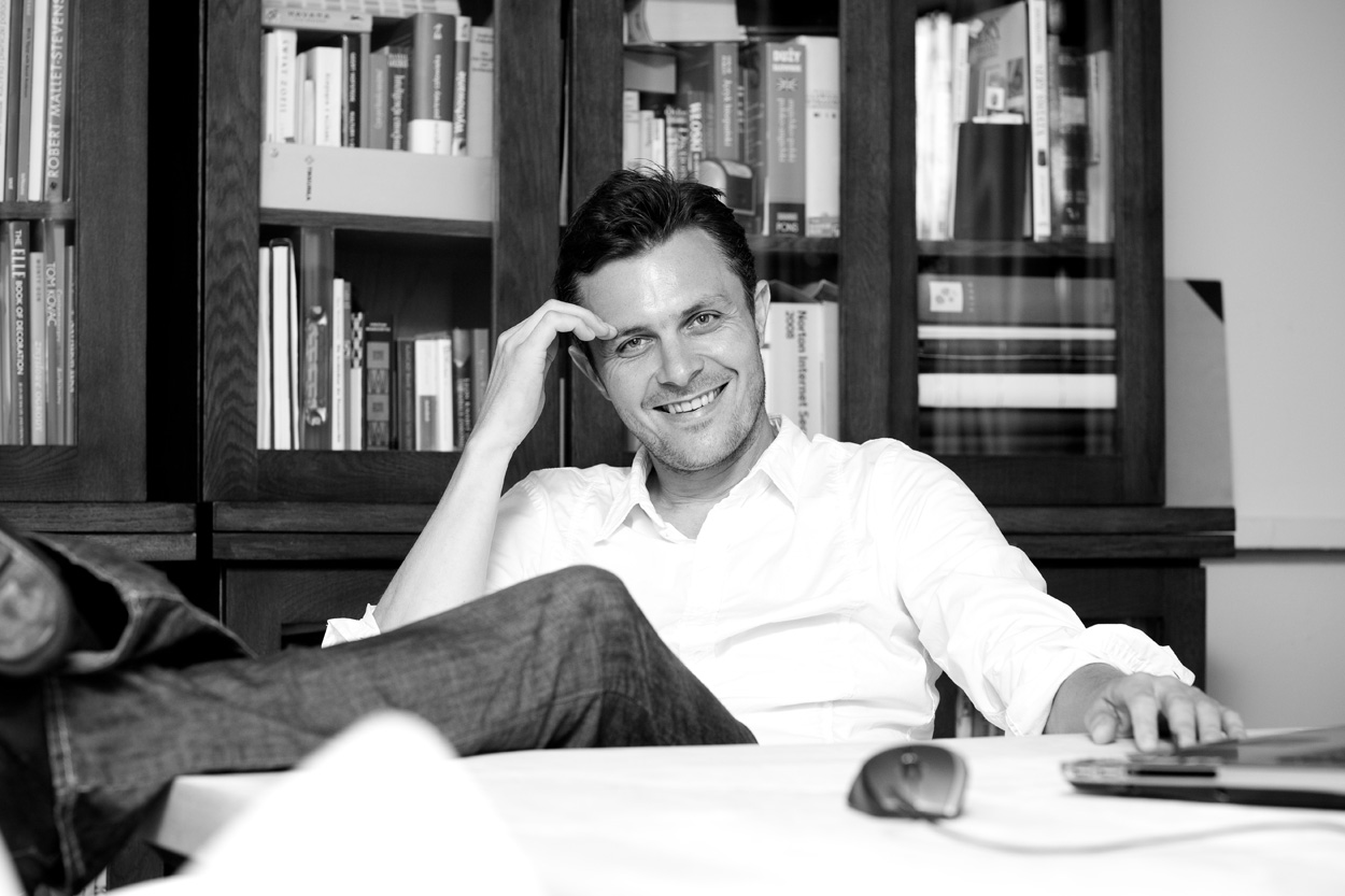 Marek Bukowski – actor